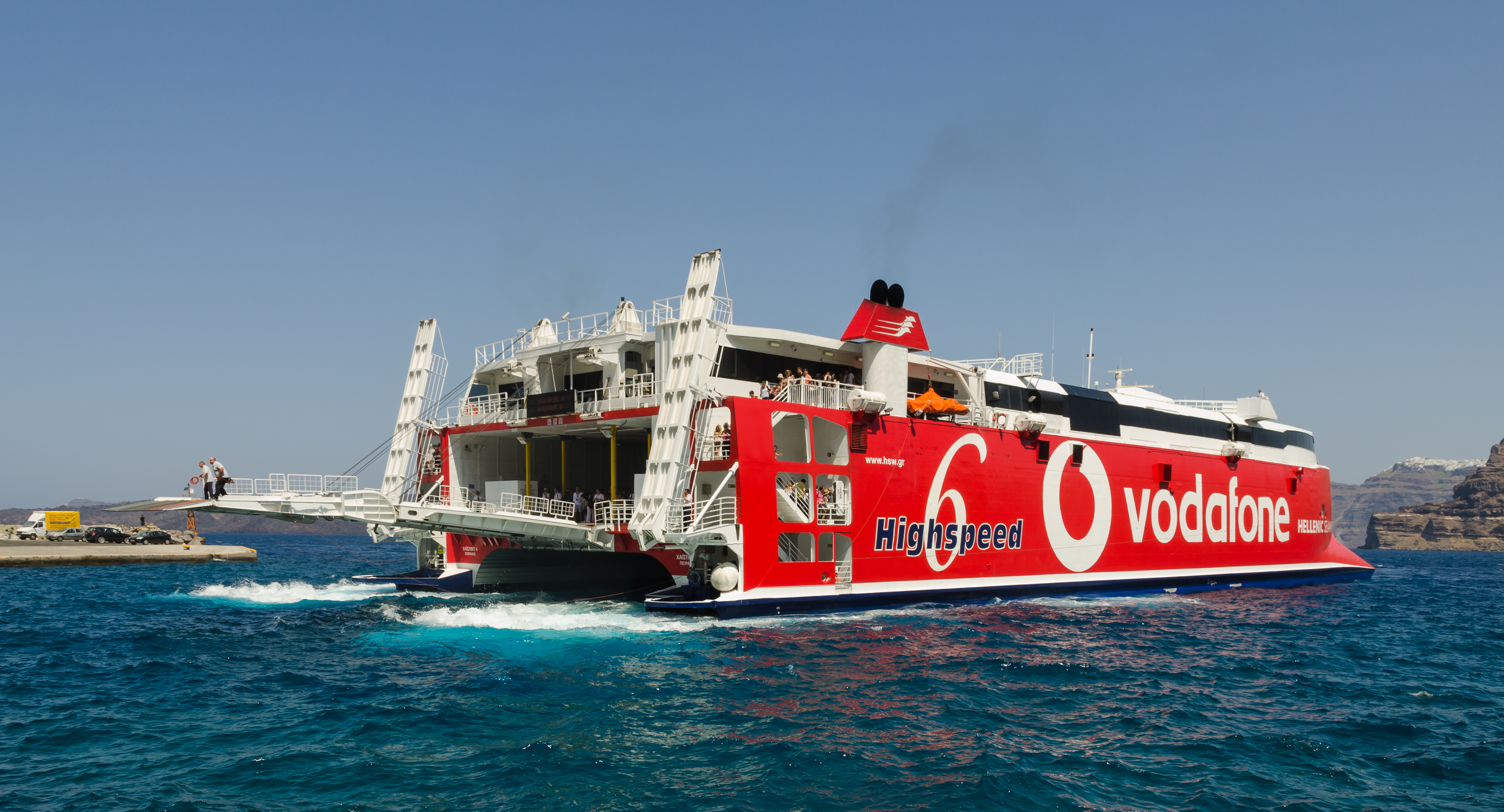 Highspeed 6 ferry, Hellenic Seaways shipowning company, Athinios harbour, Santorini, Greece.